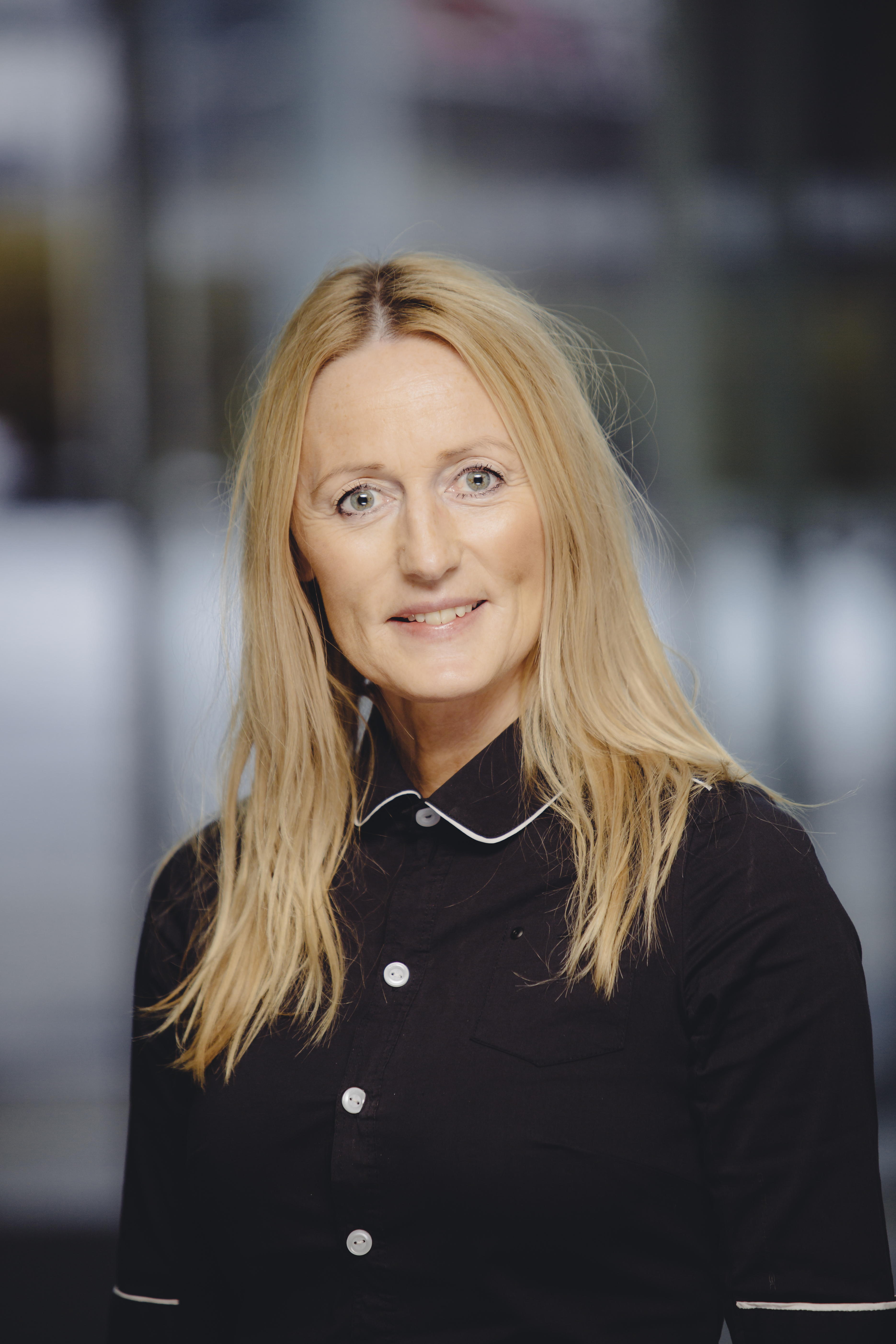 Vanja Terentieff. Foto: Marius Fiskum Bildet kan fritt lastes ned. Flere størrelser er tilgjengelige i menyen til høyre for bildet. Vennligst krediter fotograf. --- This image may be downloaded for commercial and non-commercial use. Various sizes of this image may be found in the menu on the right. Please credit the photographer.